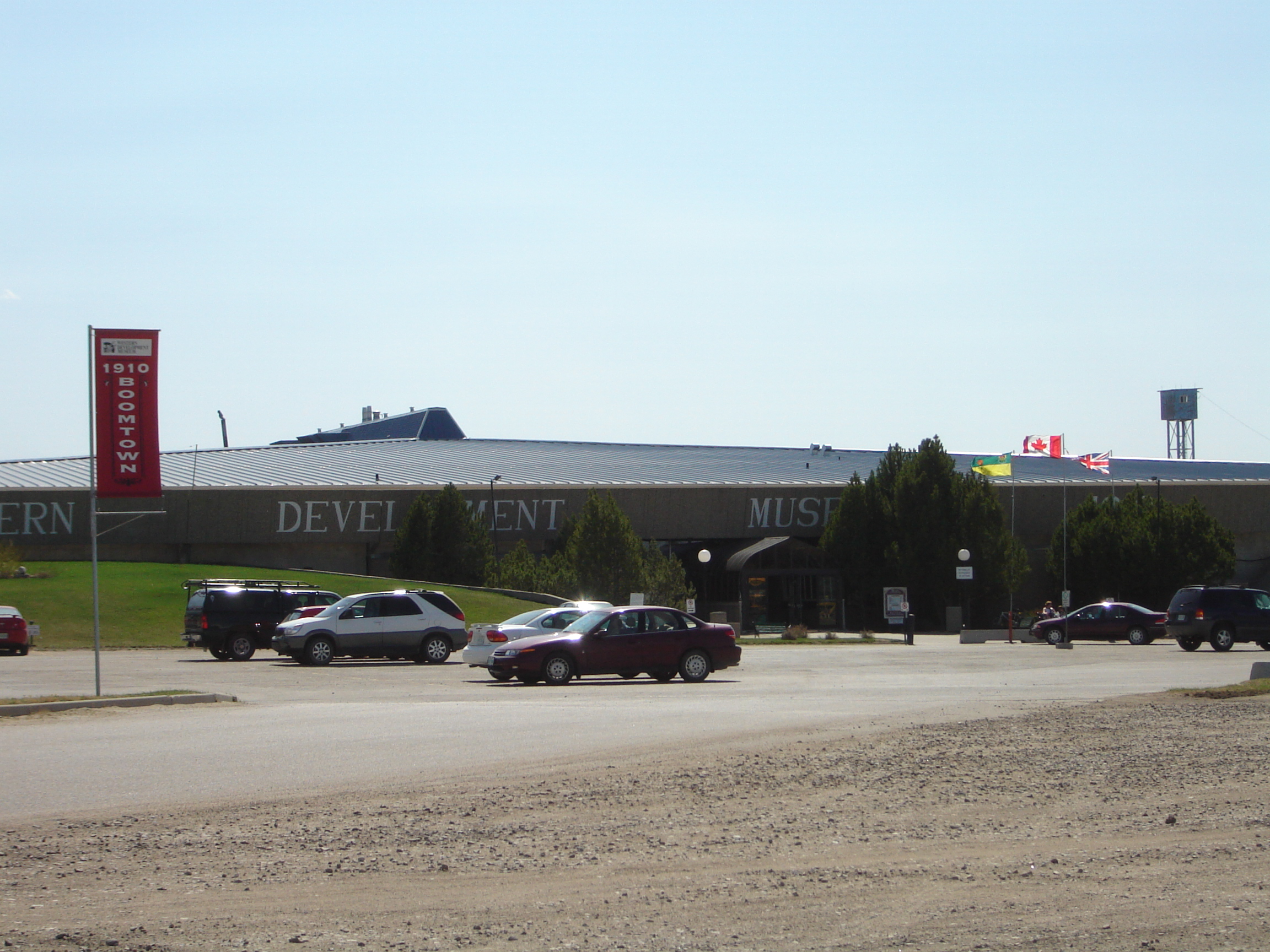 Prairieland Park, Saskatchewan Western Development Museum Exhibition, Saskatoon subdivision Saskatoon, Saskatchewan, Canada